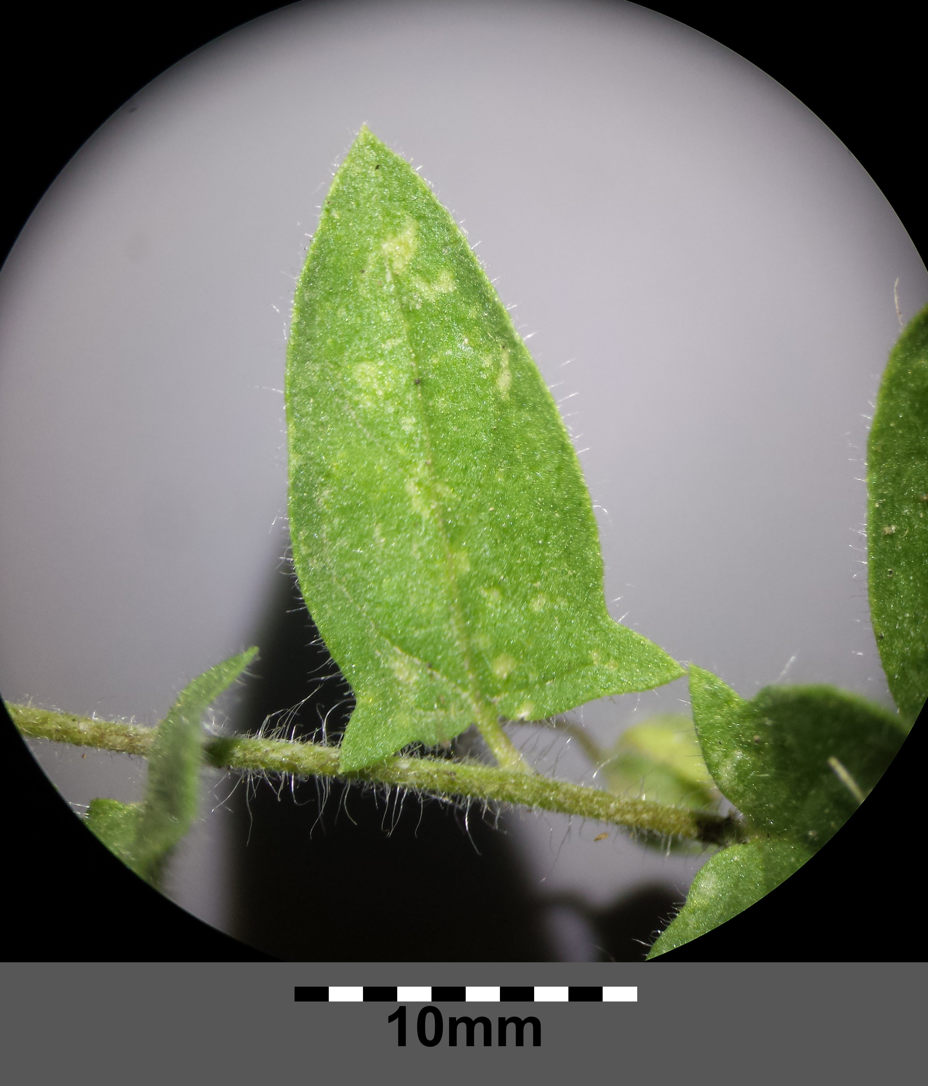 Stipe with leaf Taxonym: Kickxia elatine ss Fischer et al. EfÖLS 2008 ISBN 978-3-85474-187-9 Location: Groß-Jedlersdorf cemetery, Vienna-Floridsdorf - ca. 160 m a.s.l. Habitat: gap in surface